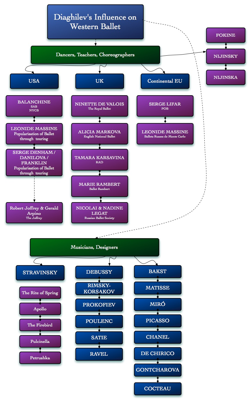 Diaghilev, his influence and collaborators via The Ballet Bag.